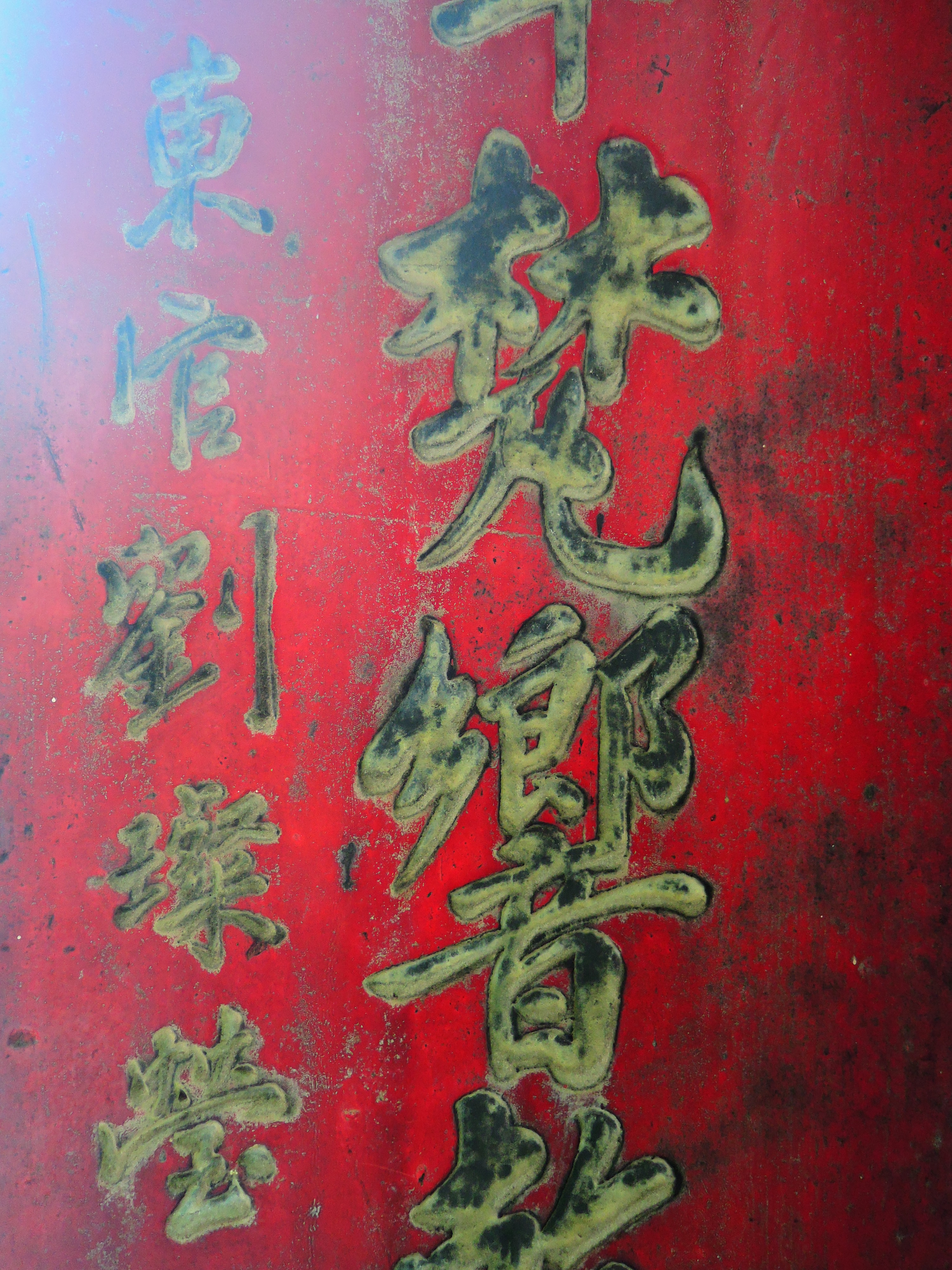 After Sino-French War (Pescadores Campaign), one of the battle participant, Liu Can-Ying（劉璨瑩）sent the Sign Board to Guan-Yin Temple in 1886.